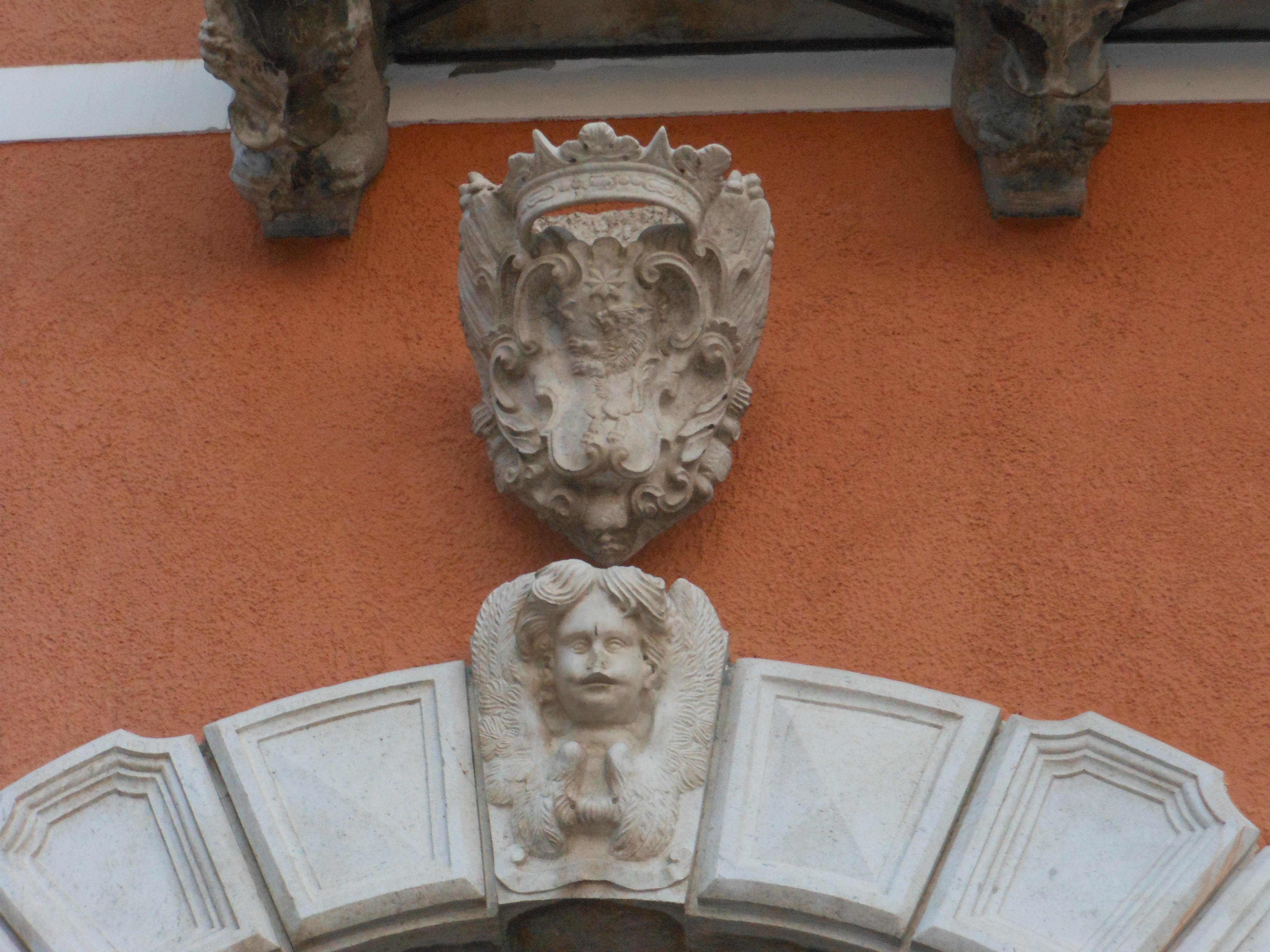 Pignola is "the village of portals" because there are a lot of this and in the picture there is an example.